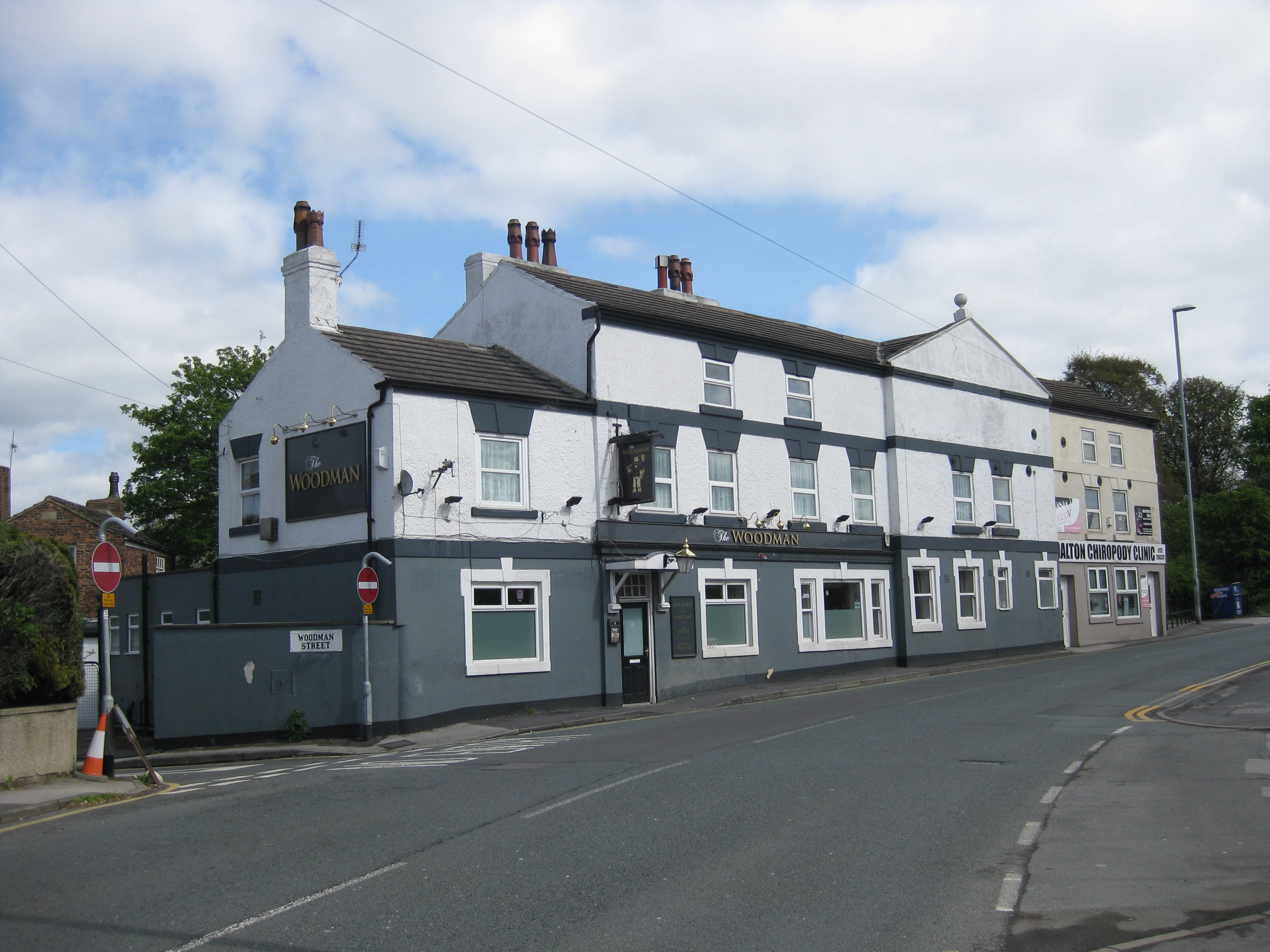 The Woodman, Selby Road, Halton, Leeds LS15 7JS. Pub on the corner of Woodman Street and Selby Road (B6159).